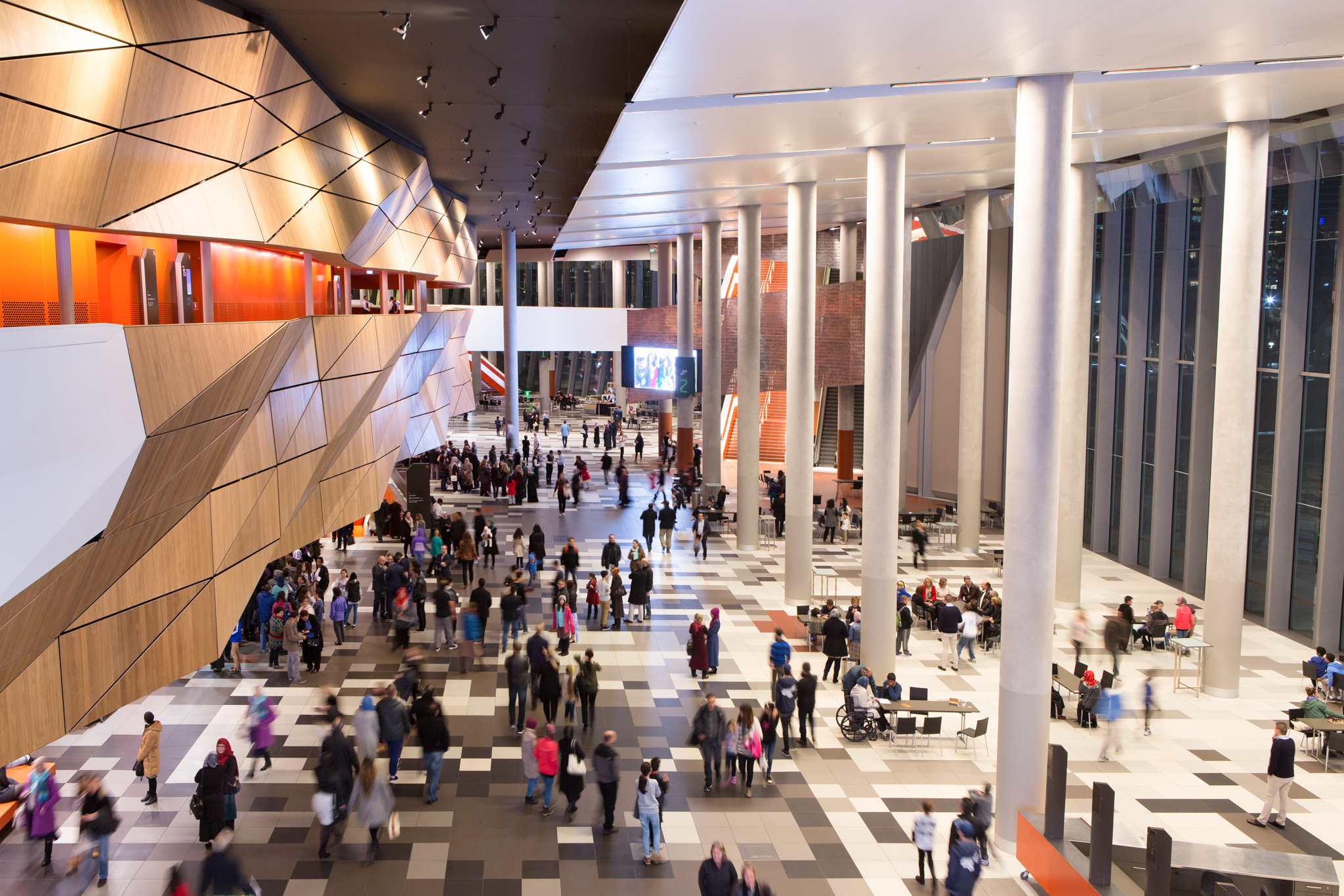 MCEC Main Foyer, June 2015